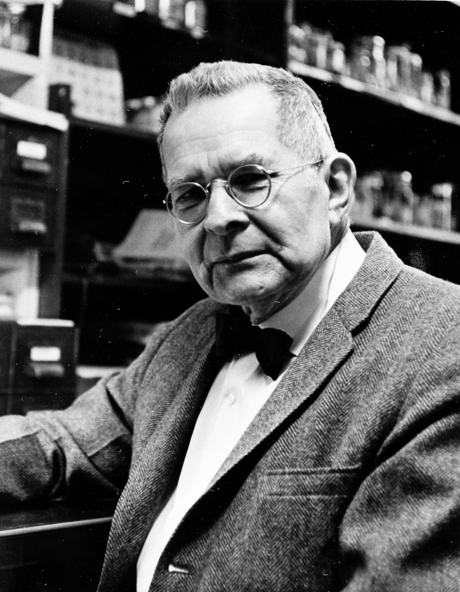 "Record Unit 371, Box 1, Folder December 1965"